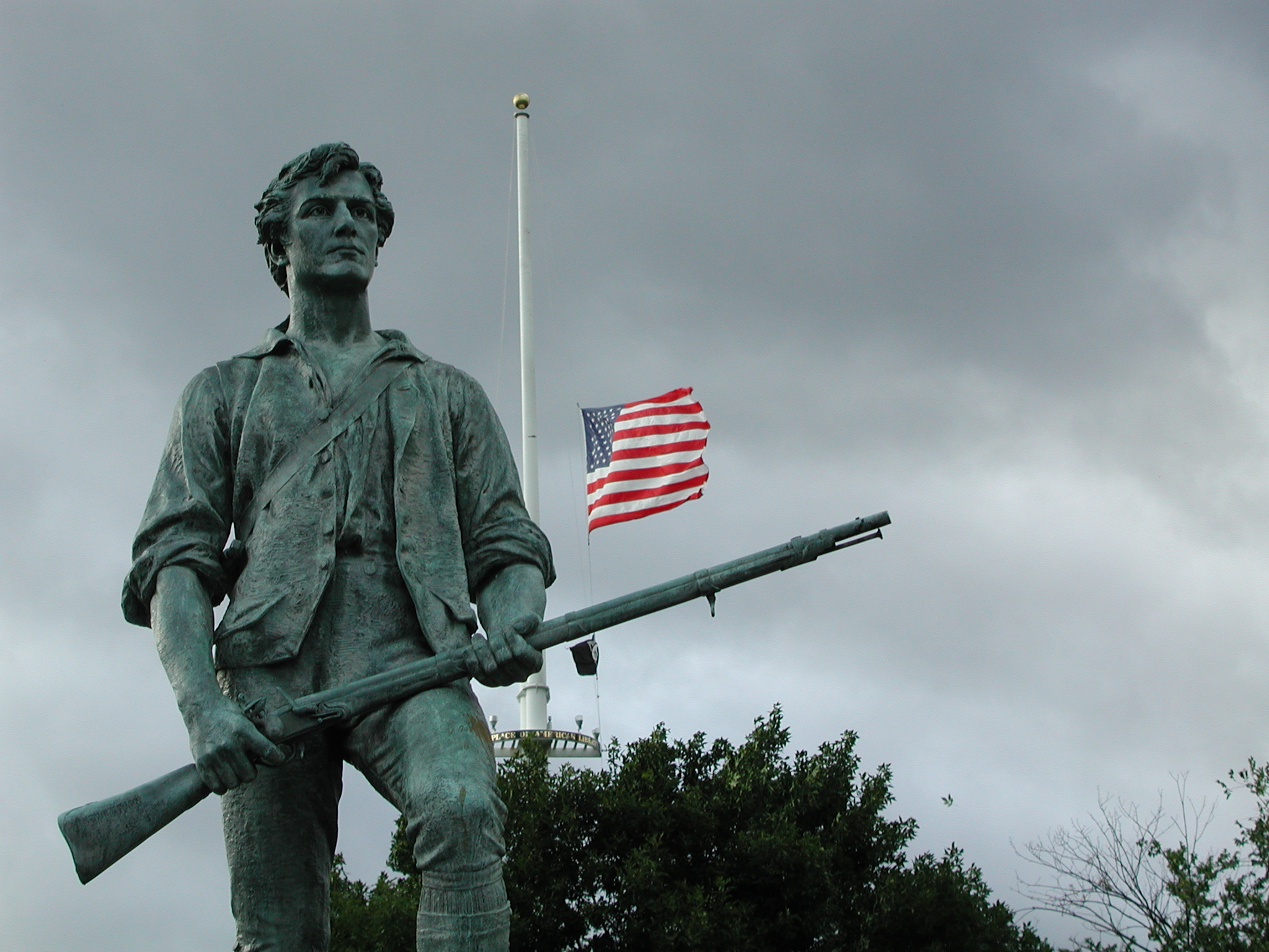 Summer's End. Lexington Green, 11 September 2002. Photo taken in Minute Man National Historical Park, with flag at half staff on the first anniversary of the terrorist attacks of 11 September 2001. Sculpture : "Minuteman" by sculptor Henry Hudson Kitson (1863-1947), dedicated April 19, 1900. Erected 1899 : SIRISA Year Later